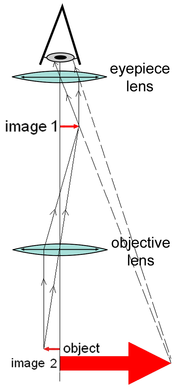 Diagram of a compound optical microscope with a lens close to the object being viewed to collect light (called the objective lens) which focuses a real image (image 1) of the object inside the microscope. That image is then magnified by a second lens or group of lenses (called the eyepiece) that gives the viewer and enlarged inverted virtual image (image 2) of the object